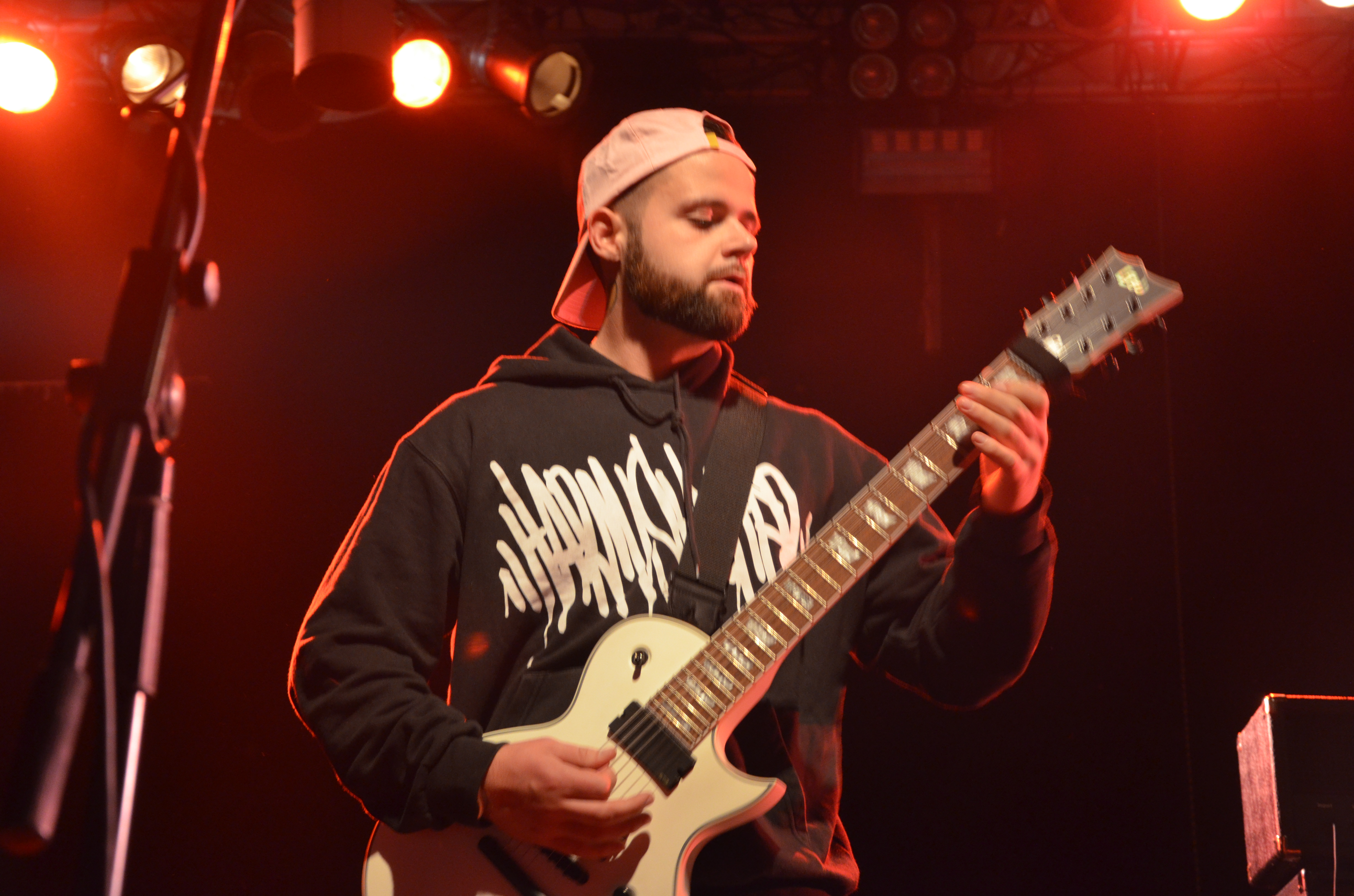 Words of Concrete spielen auf dem Taste of Anarchy Fest 2016 in Köln.